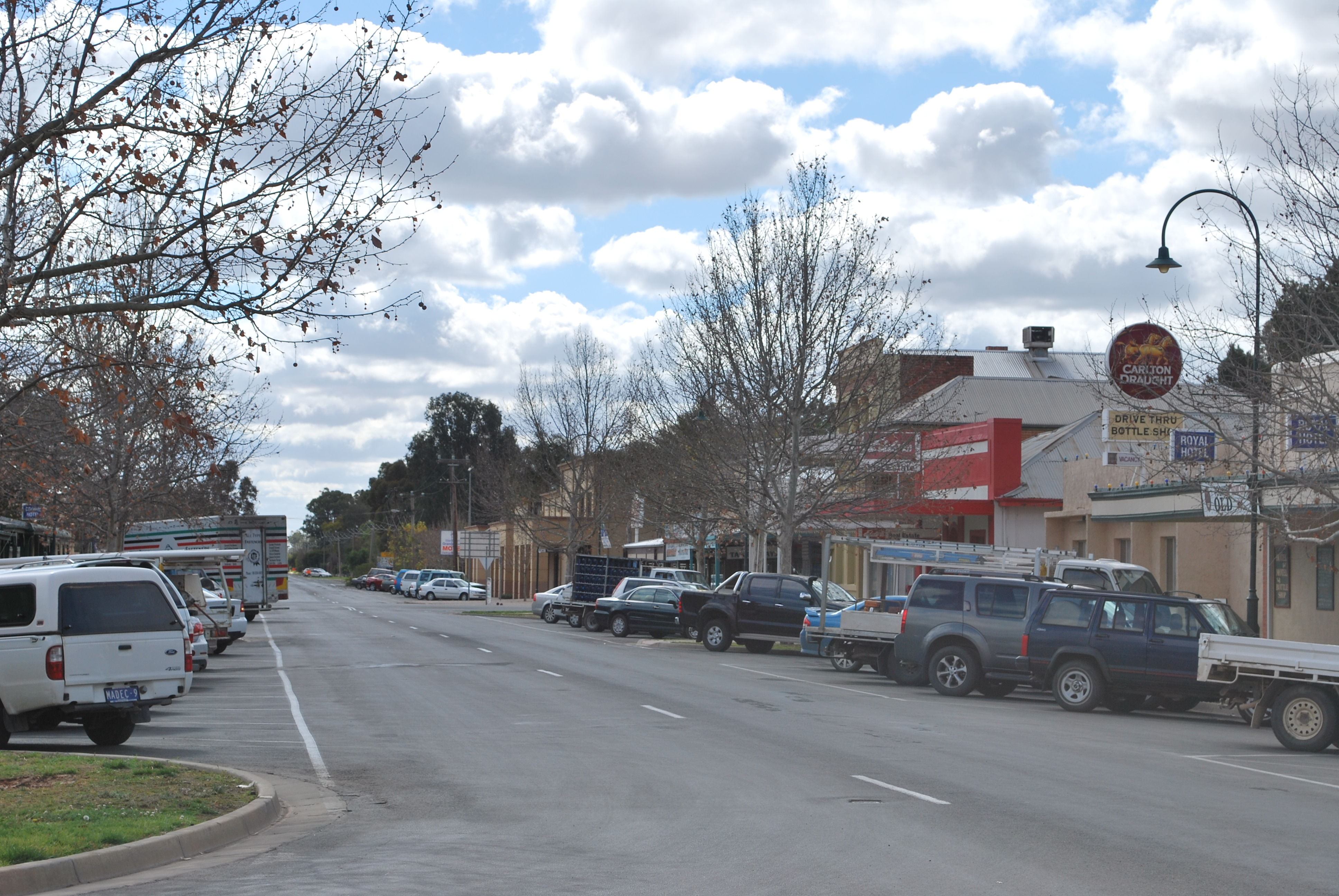 Darling St, the main commercial district of Wentworth, New South Wales